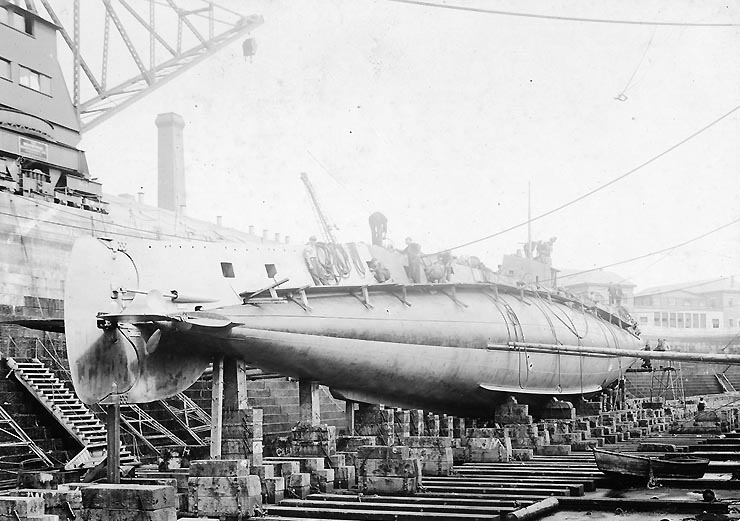 USS O-1 (Submarine # 62) in drydock at the Portsmouth Navy Yard, Kittery, Maine, on 5 September 1918. Note the submarine's rudder and after diving planes. Original caption: “Photo # NH 46711 USS O-1 in dry dock at Portsmouth Nary Yard, Sept 1918” — removed caption